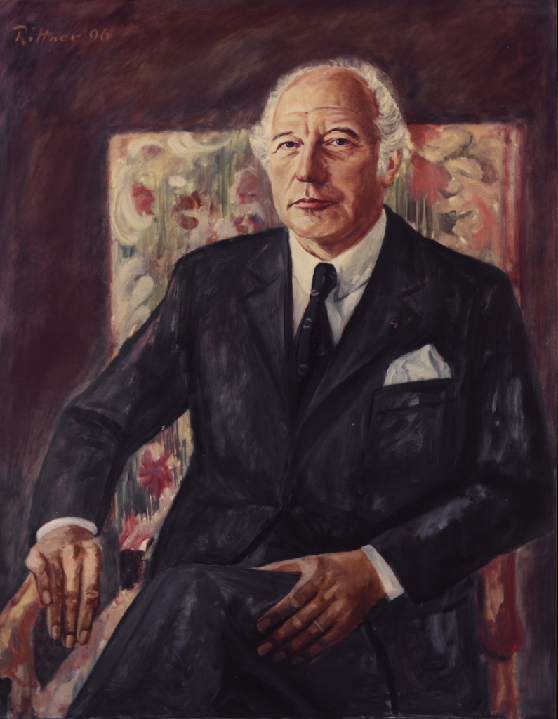 Walter Scheel, former President of the Federal Republic of Germany